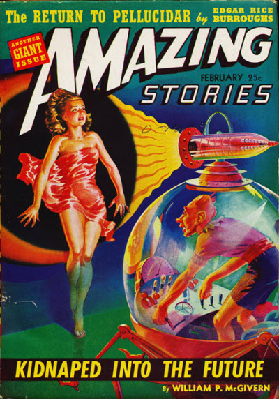 Cover of Amazing Stories, February 1942